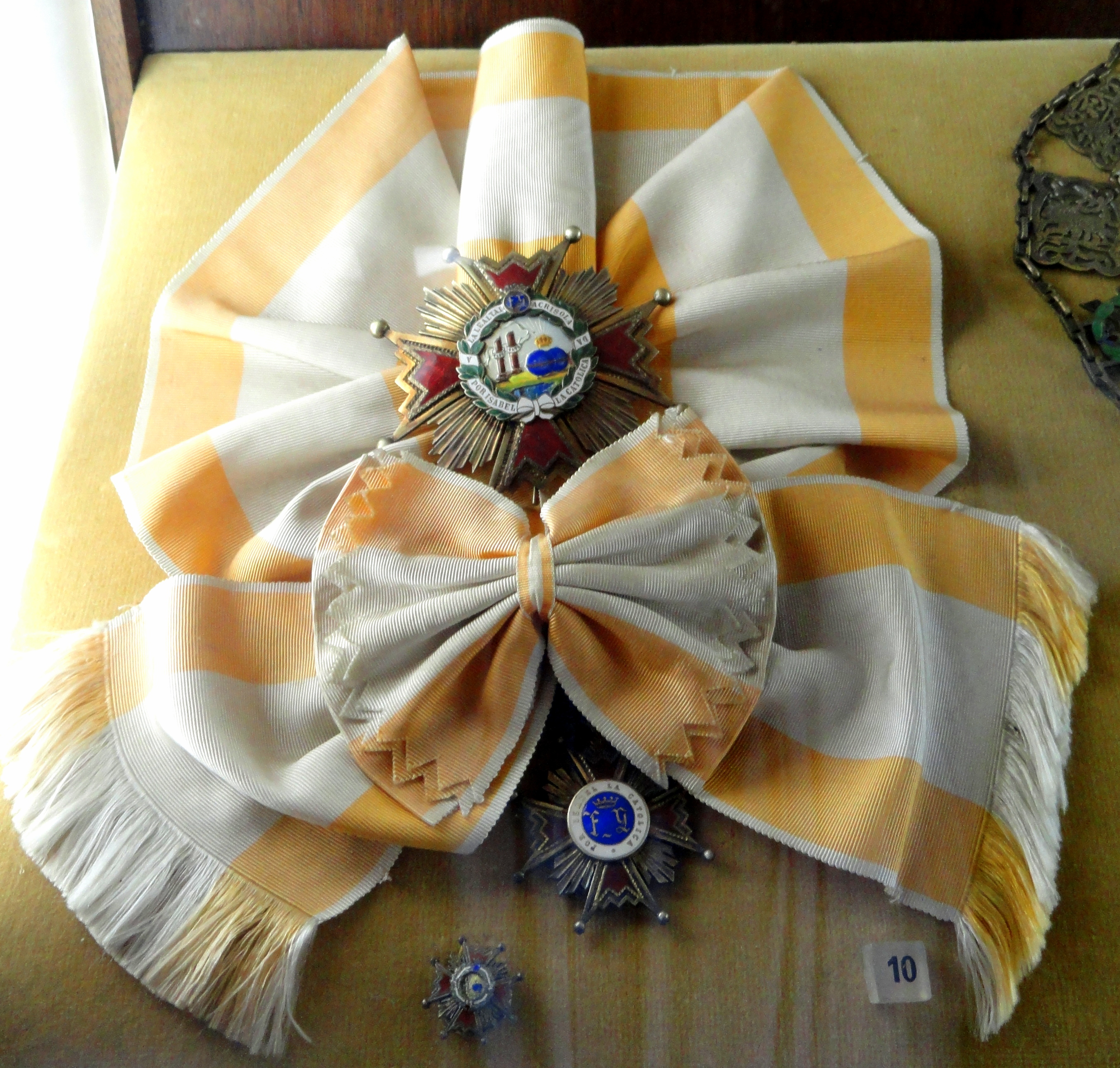 IExhibit in the Memorial JK, Brasília, Brazil.